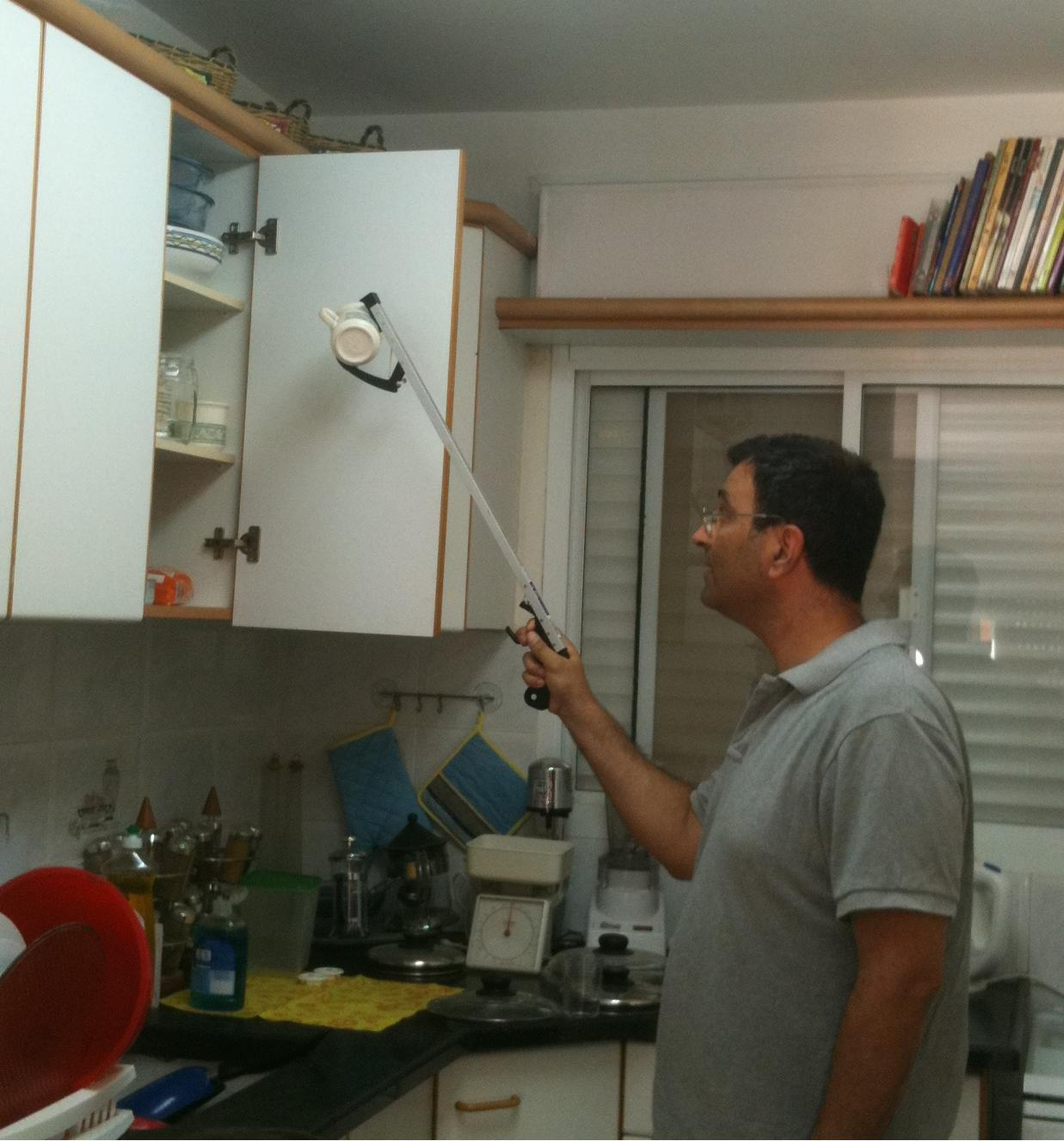 Reacher, an Assistive Technology device for daily living. Manufactured by Yad Sarah, Israel